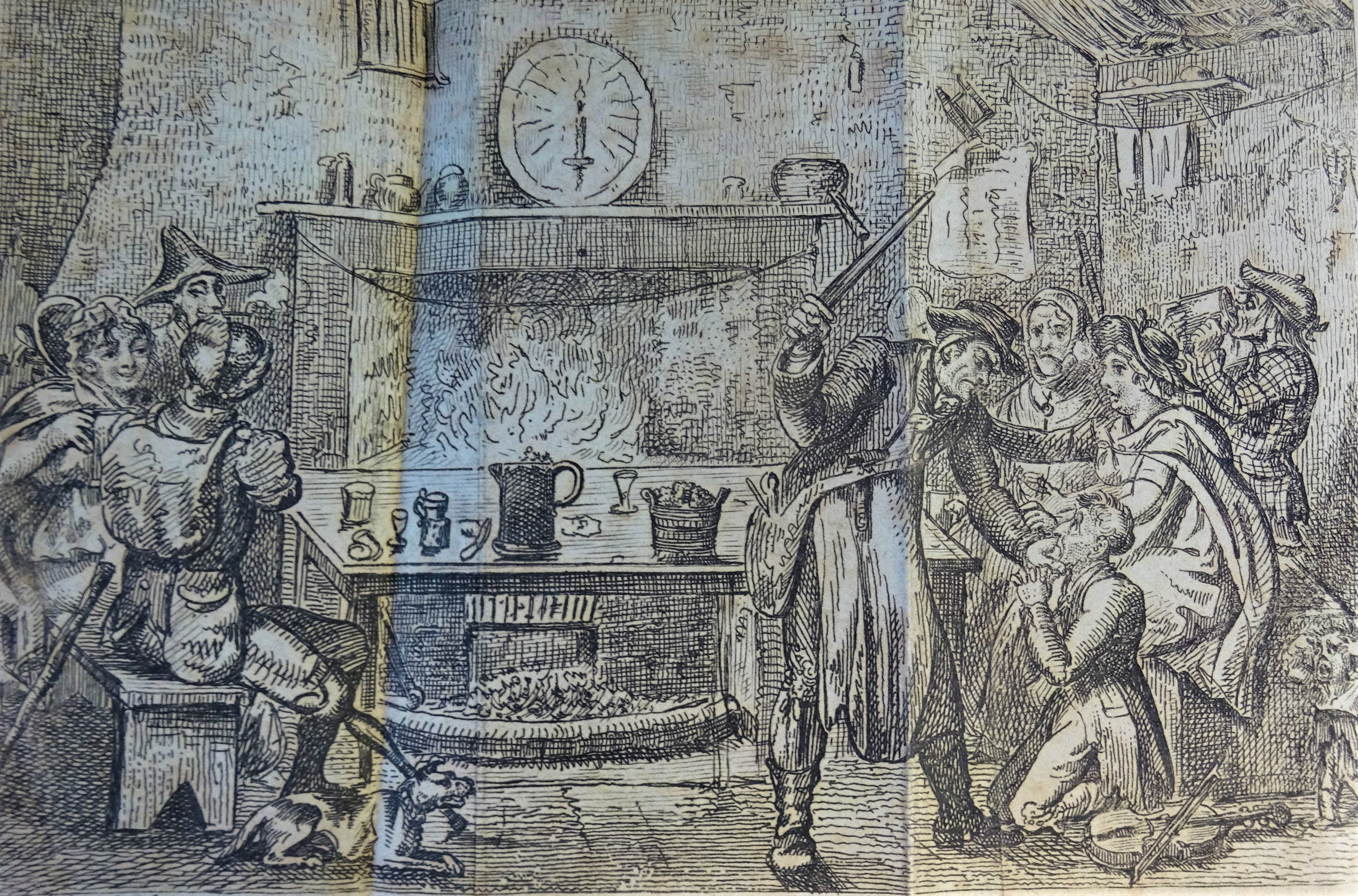 Isaac Cruickshank's Jolly Beggars. Poems, Letters, etc., etc. Ascribed to Robert Burn